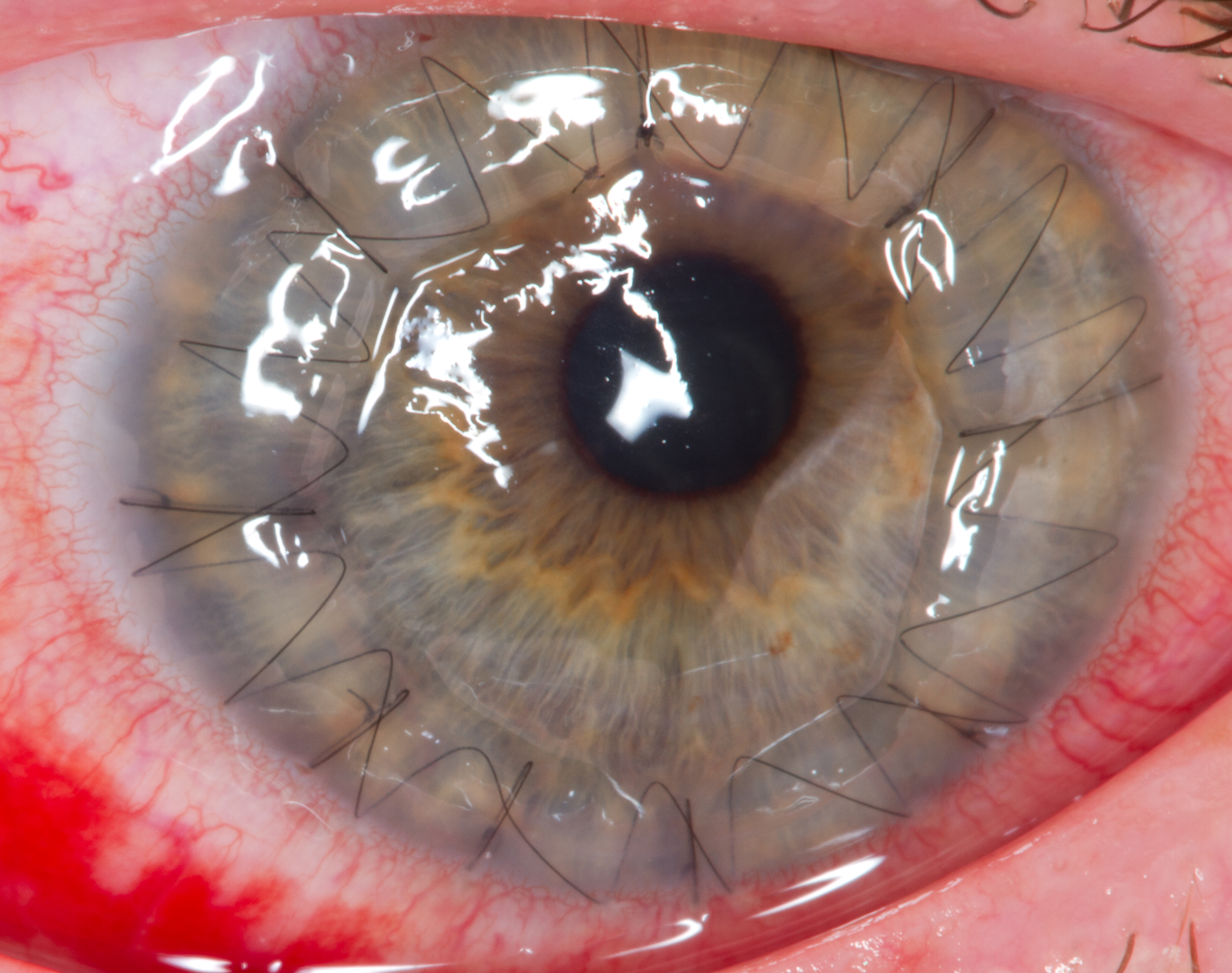 A male human eye 1 day after a cornea transplant. Transplant was required due to Keratoconus. Stiches are visible